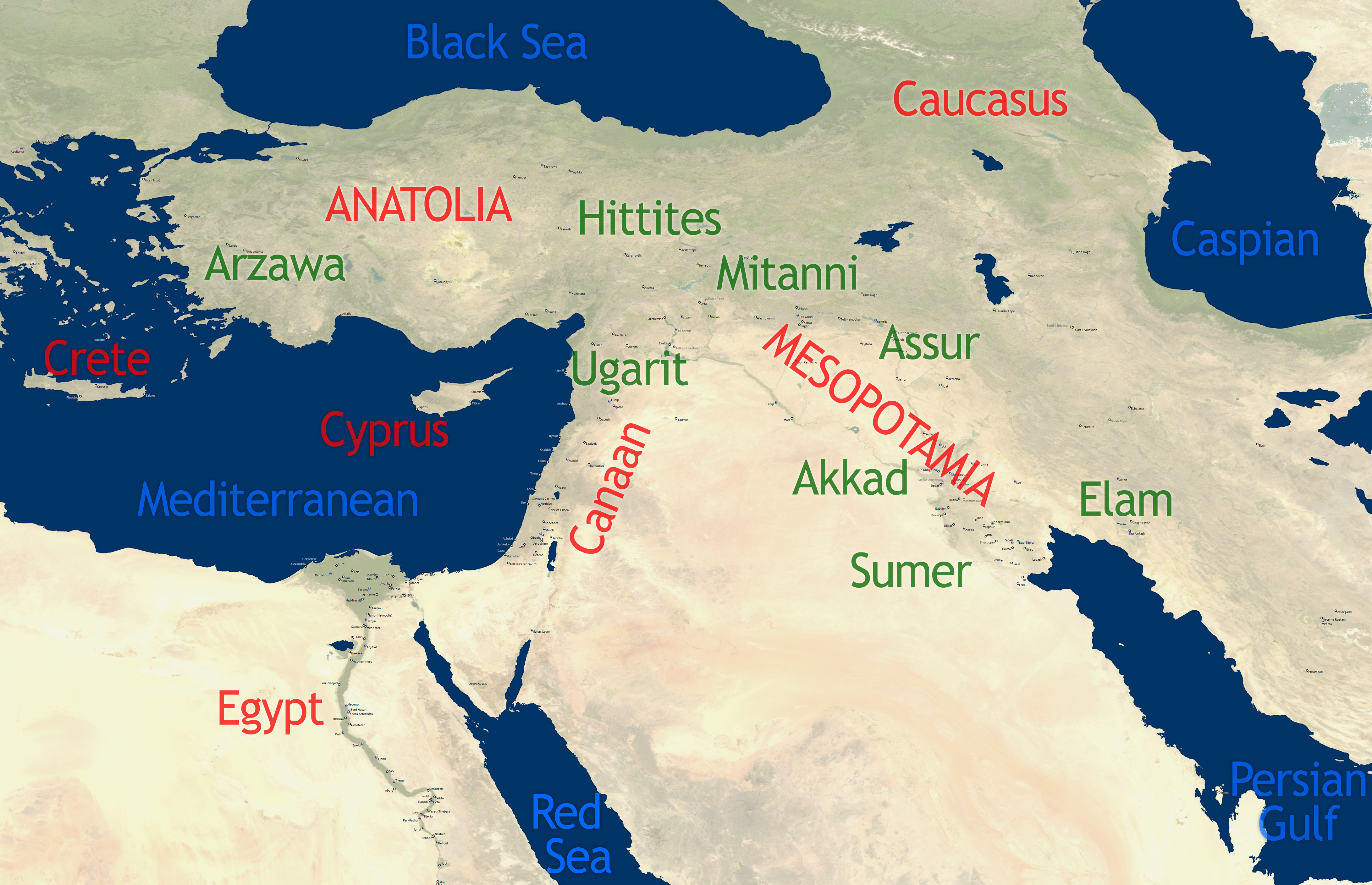 See Image:Orient 27 43 22 55 blank map.png for a blank map. self-created in November 2004 on the basis of the 2002 NASA Blue Marble image.[1]